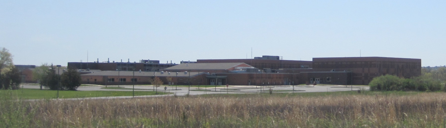 Photo showing Montgomery High School from Skillman Road (County Route 602).